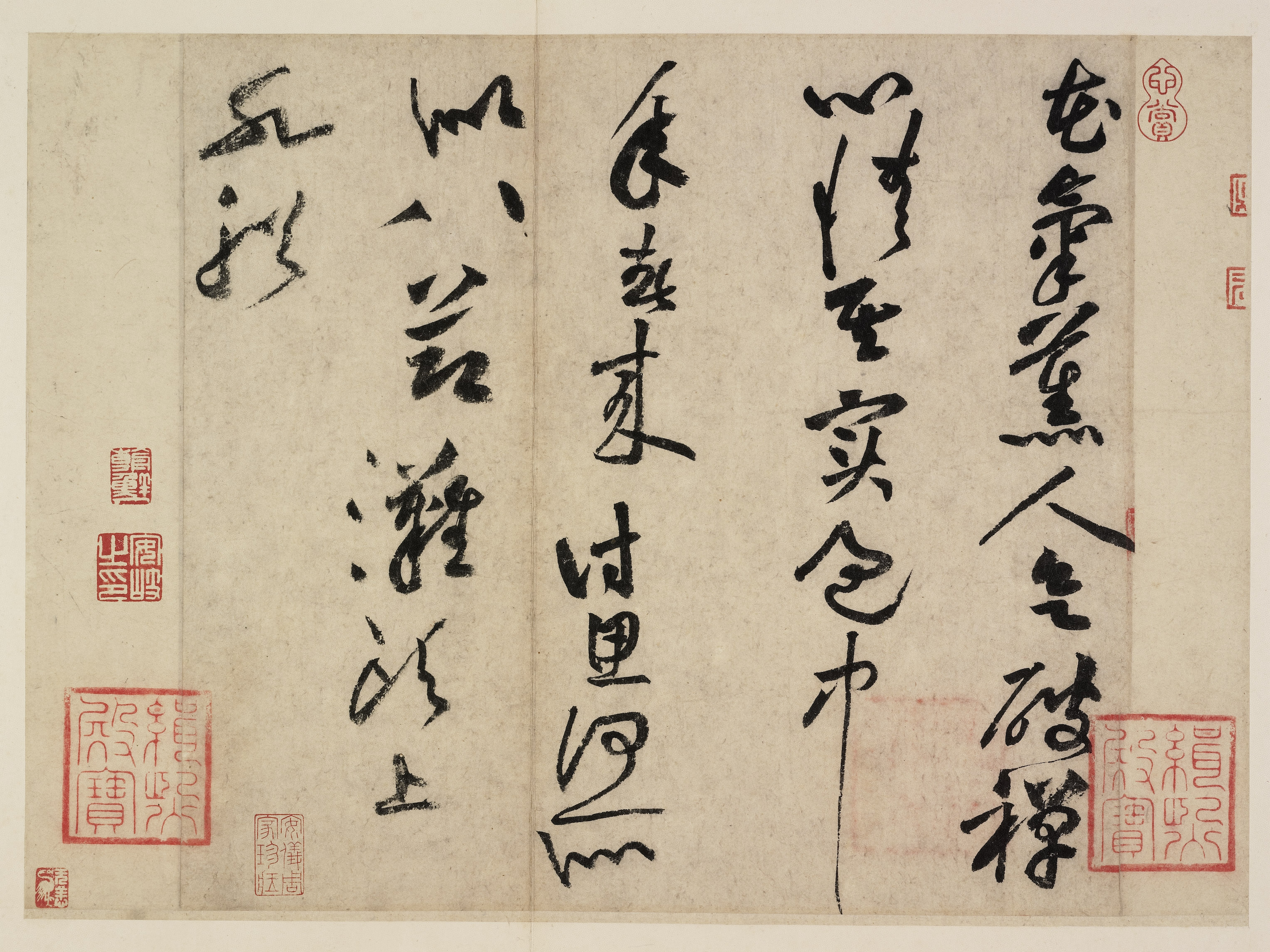 Huang Tingjian originally composed the seven-character poem "Besotted by Flower Vapors" in 1087. It is one of two poems that Huang Tingjian mailed to his friend Wang Gong (王鞏)—who had solicitously gifted flowers to Huang in exchange for a poem—later in the same year. Around 1100, Huang Tingjian retranscribed the poem onto this work. The brushwork is done in cursive script, but it also contains elements of semi-cursive script.